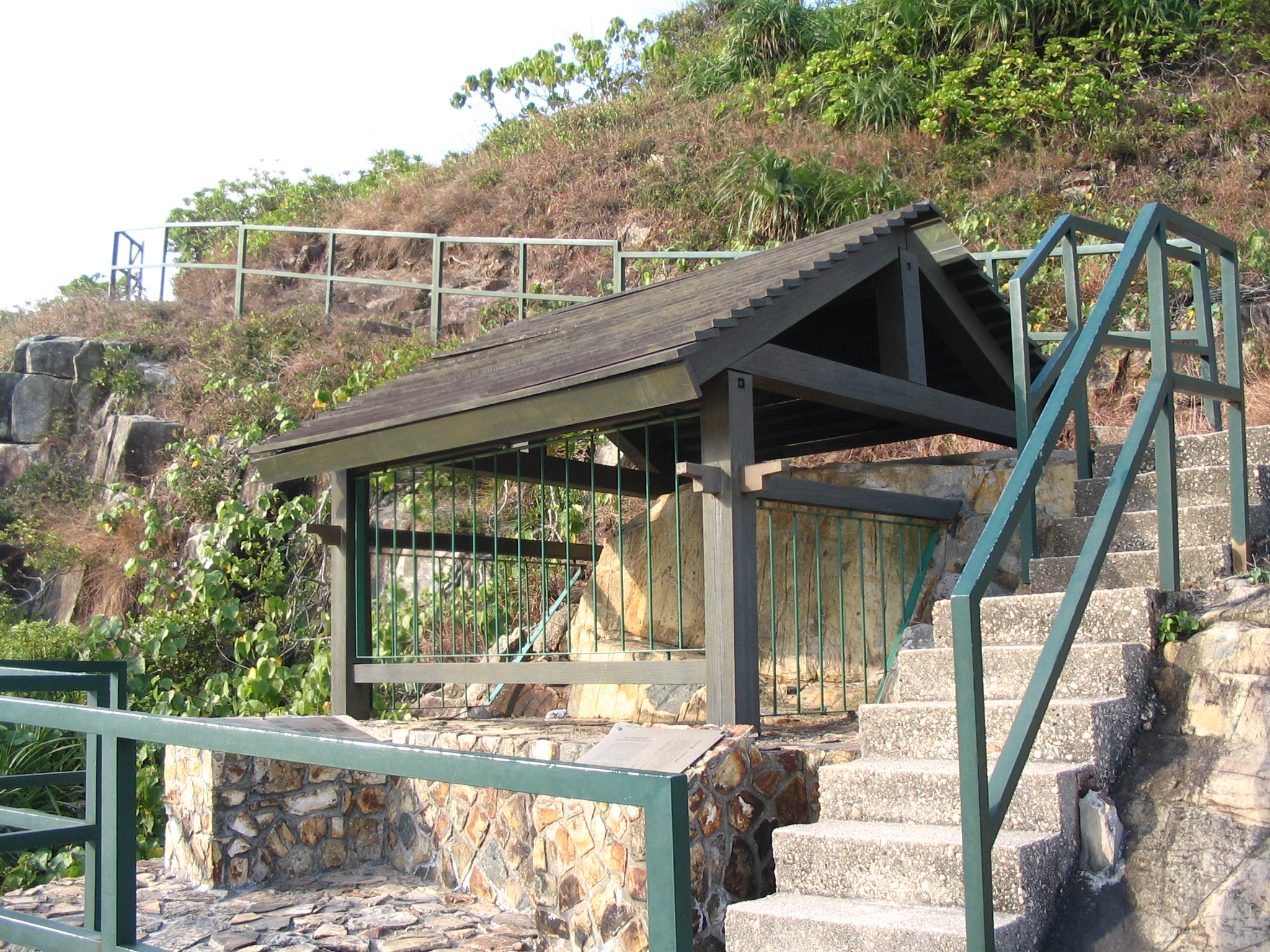 Photo of Big Wave Bay Rock Carving